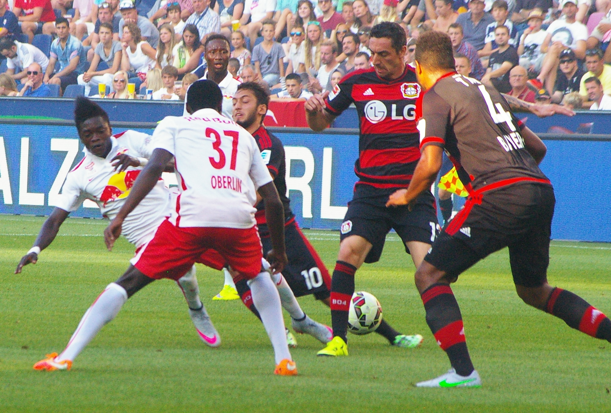 friendly match preseason 2015/16